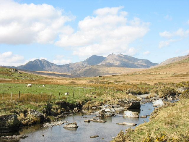 Nant Gwryd The river which drains Dyffryn Mymbyr is variously called by the OS 'Nant Gwryd' on the 1:25,000 map and 'Nant y Gwryd' on the 1:50,000. The river has its source in Llyn Cwm-y-Ffynnon SH6456. The background of the photo is formed by Pedol yr Wyddfa - the Snowdon Horseshoe.